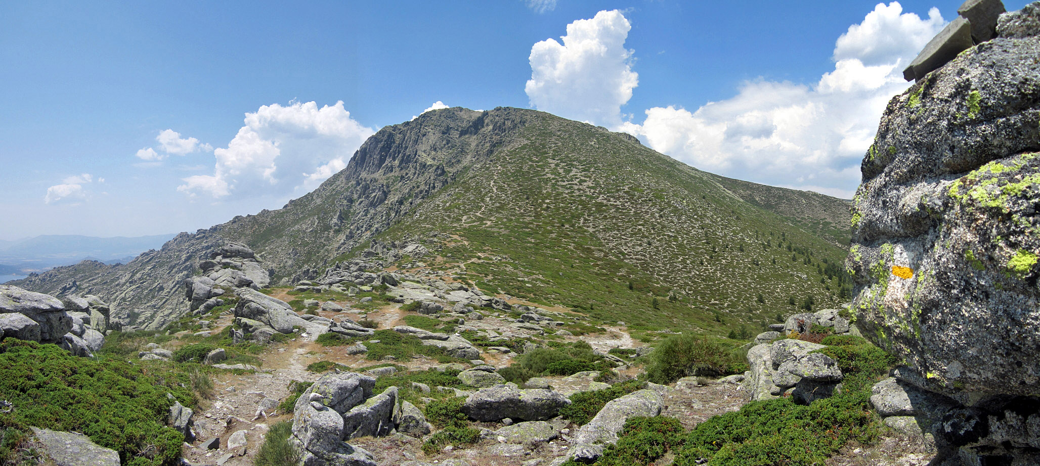 View of the La Maliciosa east slope from the Collado de las Vacas.